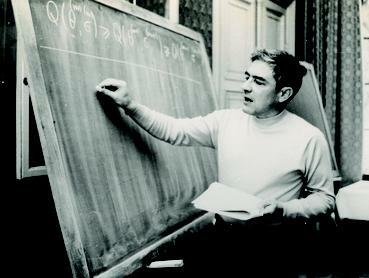 Peter Huber, source: Oberwolfach Photo Collection, photo id: 1849, date: 1975.